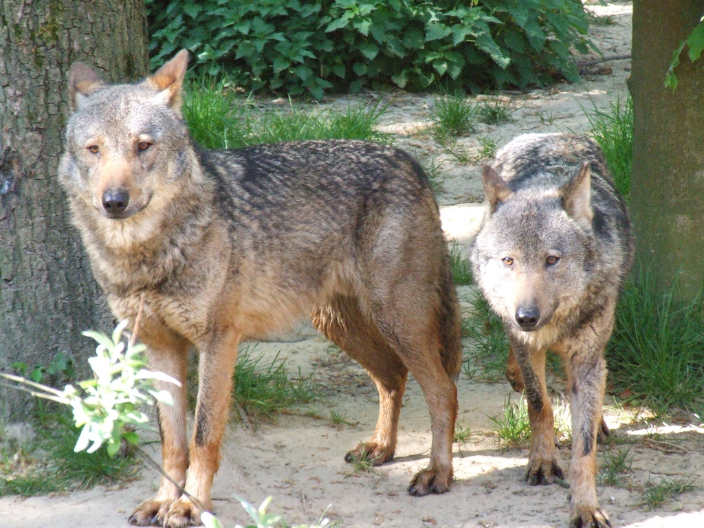 Iberian wolves (Canis lupus signatus) in Kerkrade's Zoo (Netherlands).